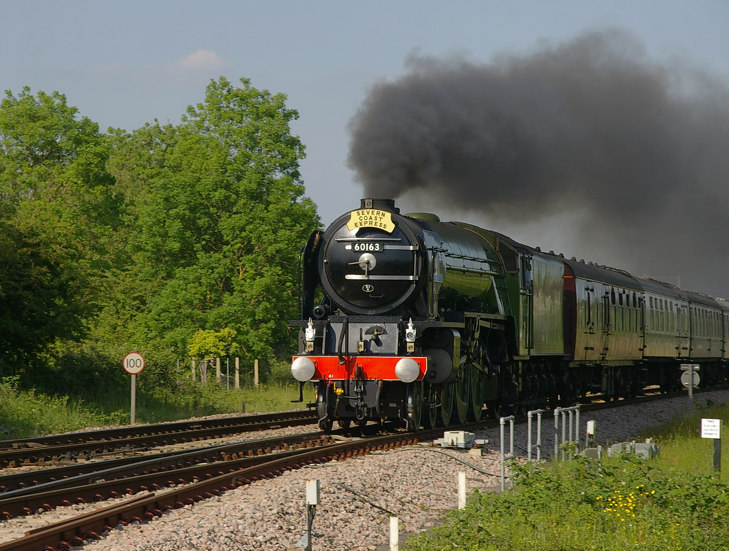 Brand new steam locomotive 60163 Tornado on the Severn Coast Express railtour on 30 May 2009. Seen at the level crossing near Yatton railway station.Uploaded by Ultra7